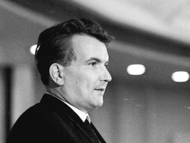 Horst Salomon addressing writers' conference in November 1966.